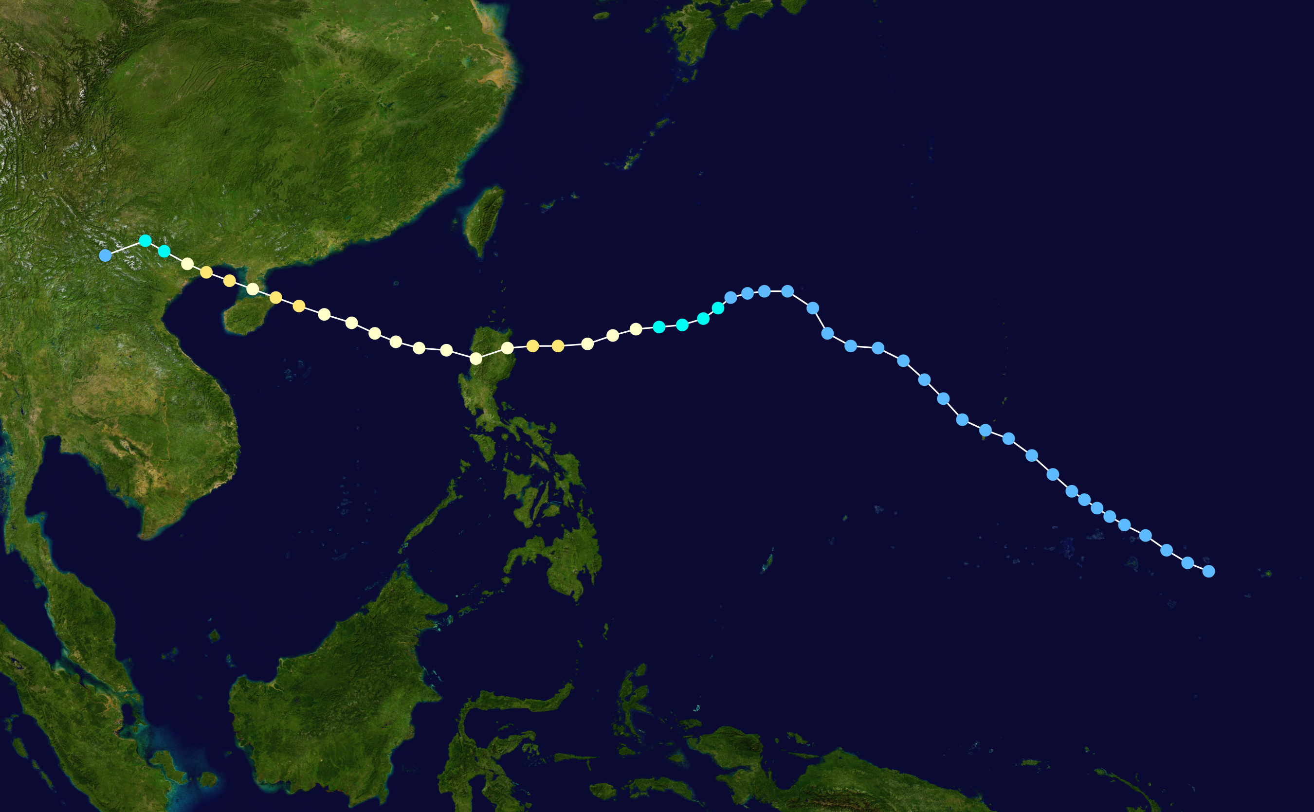 Typhoon Krovanh 2003 track. Uses the color scheme from the Saffir-Simpson Hurricane Scale.